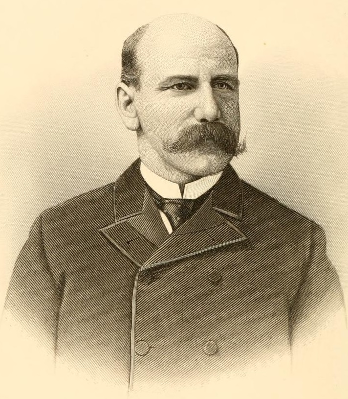 Robert M. Yardley (Pennsylvania Congressman)